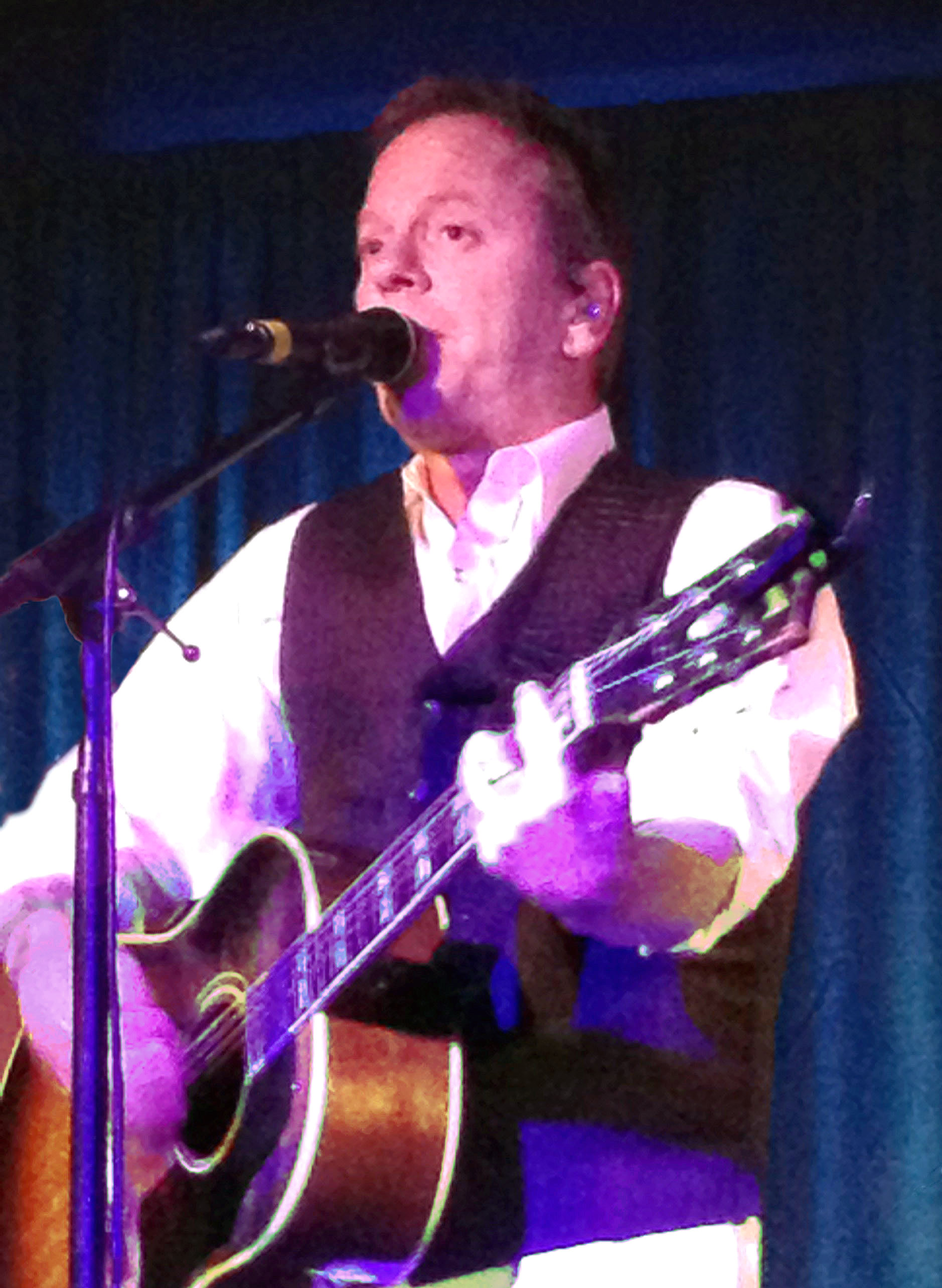 Actor-singer Kiefer Sutherland performing in concert. Photo enhancement performed due to low lighting environment.